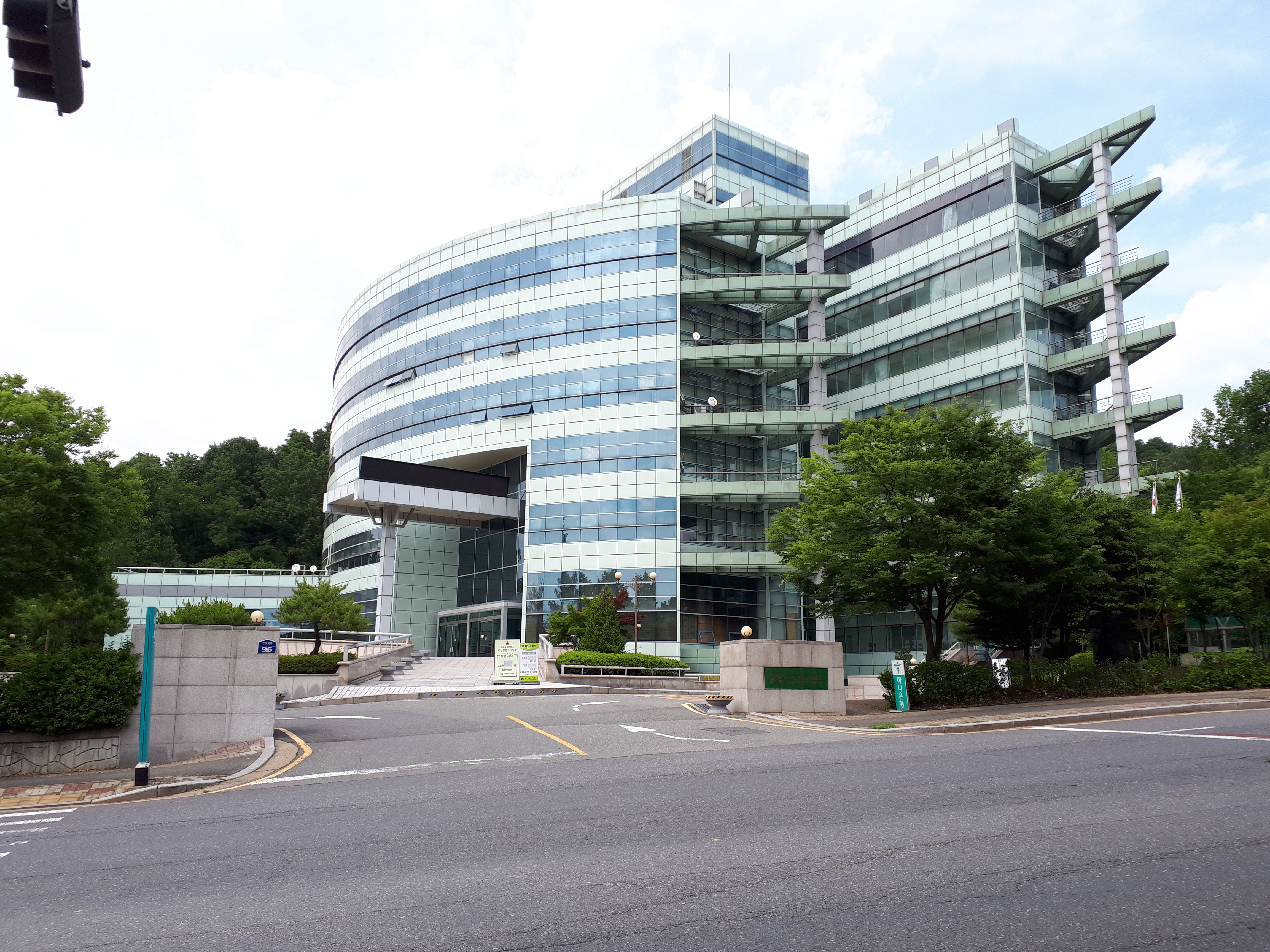 Daejeon Business Agency